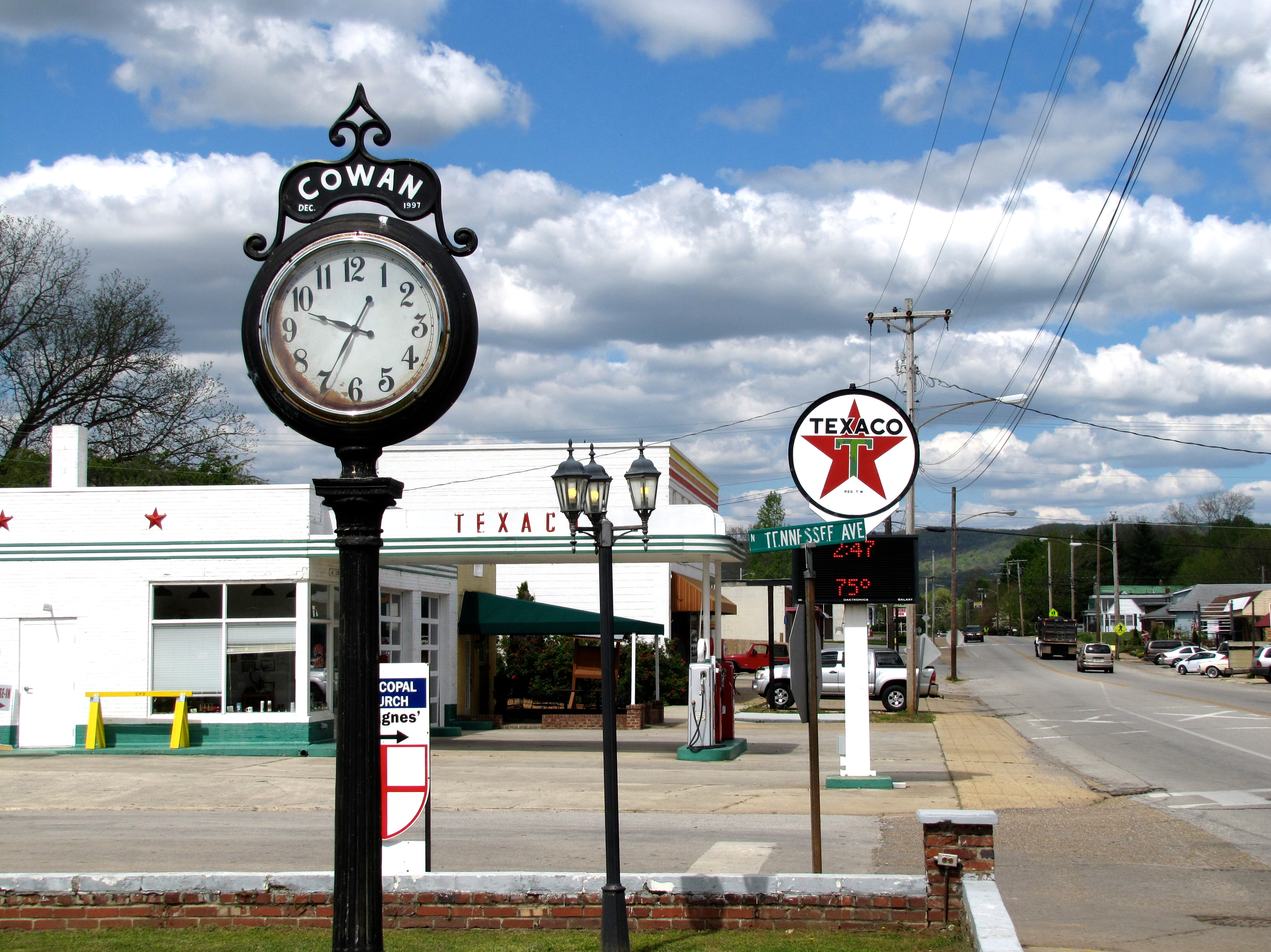 Street clock and Texaco station along Cumberland Street (U.S. Route 41A) in Cowan, Tennessee, United States.